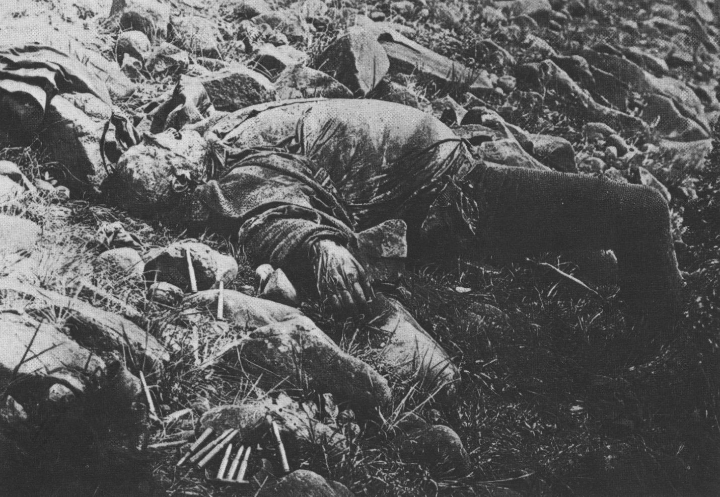 A killed Boer sniper after the Battle of Spioenkop, near Ladysmith, Natal, South Africa.